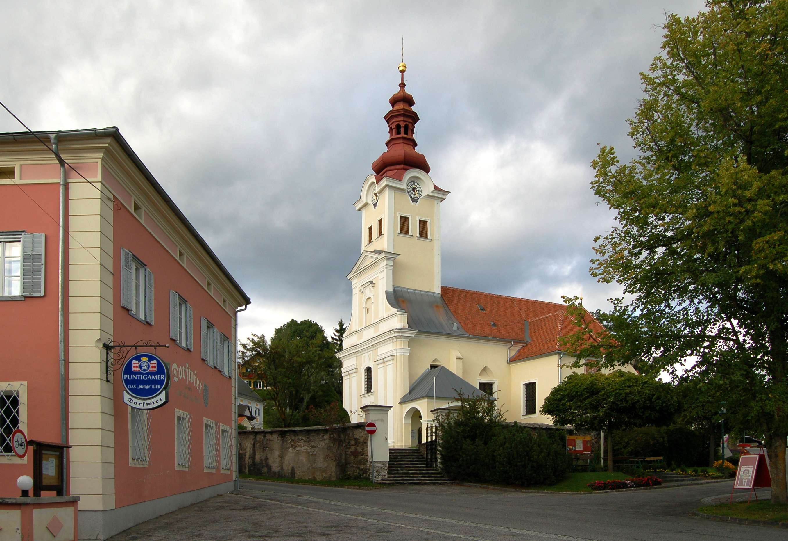 The parish church St. John Baptist in Strallegg, Styria, is a cultural heritage monument.